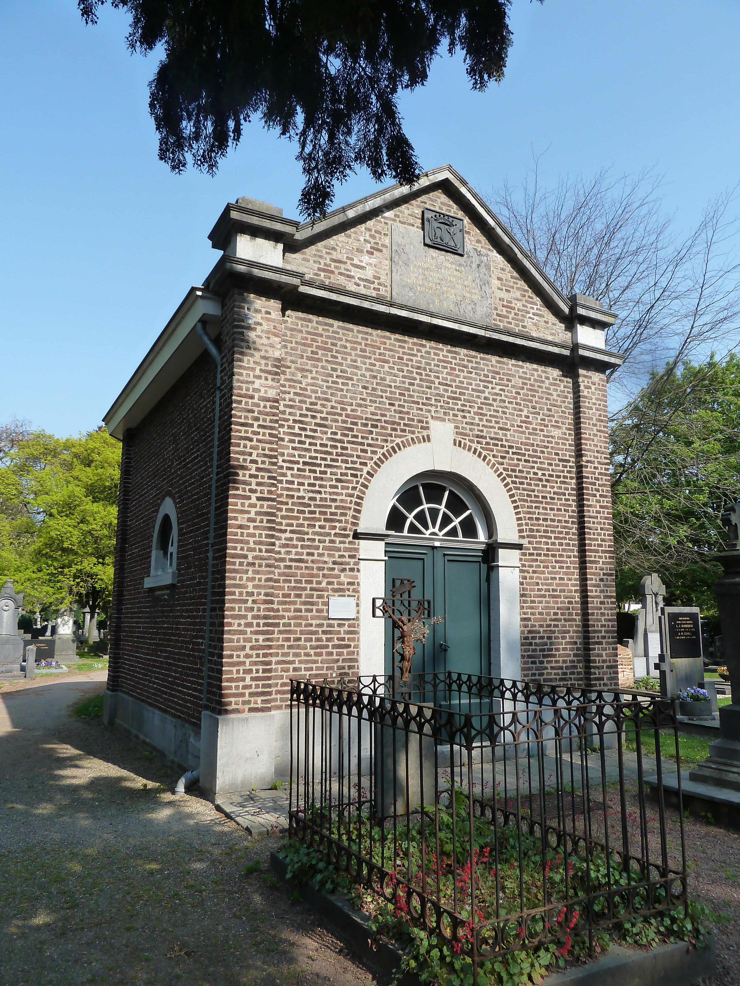 Grafkapel De Loë, Neoclassistische kerkhofkapel, Heerlen, Limburg, the Netherlands